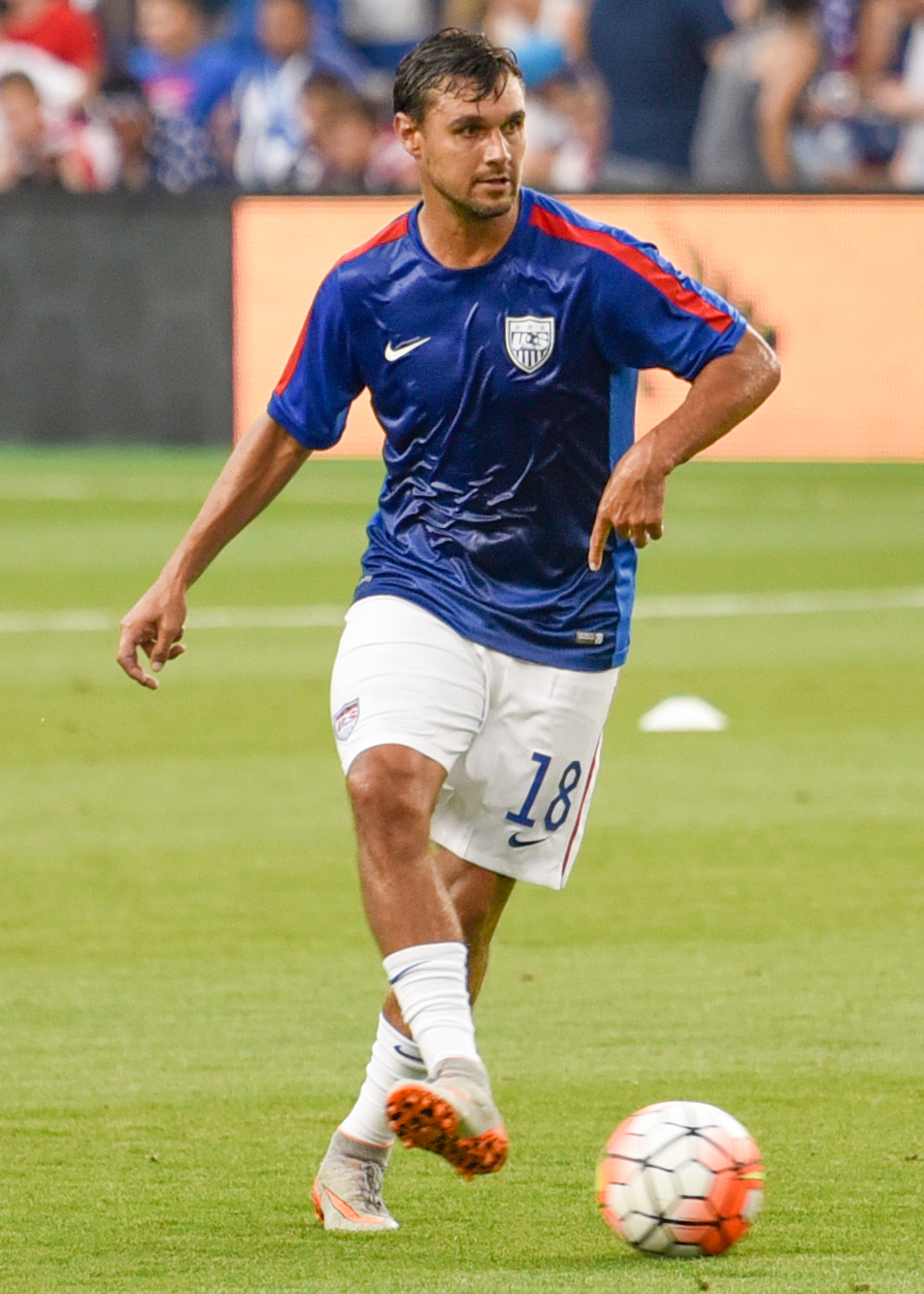 Chris Wondolowski warming up for the Gold Cup game against Panama on 13JUL2015 at Sporting Park, Kansas City, Kansas.